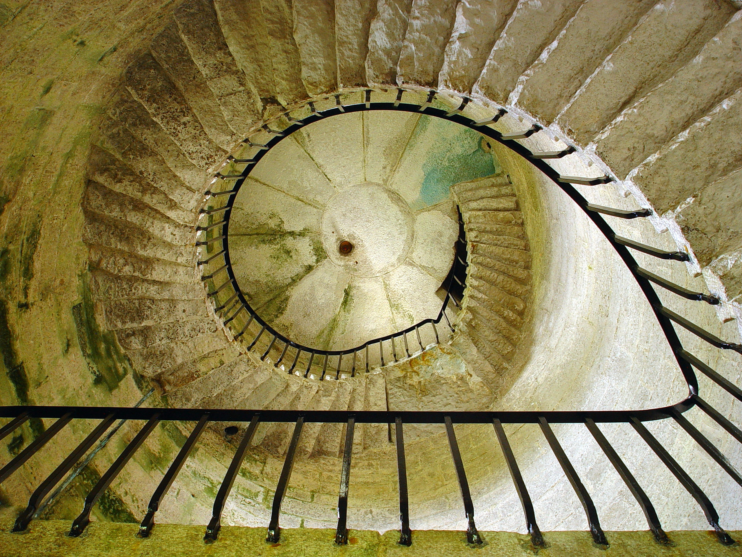 Inside the Lighthouse